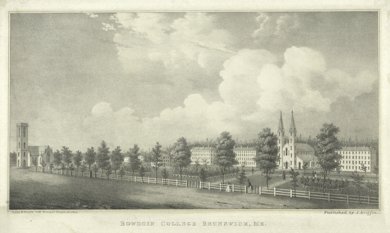 Lithograph showing the campus of Bowdoin College, circa 1845, lithograph by Lane & Scott, published by J. Griffin, image by FitzHugh Lane. Courtesy of the New York Public Library Digital Collection.